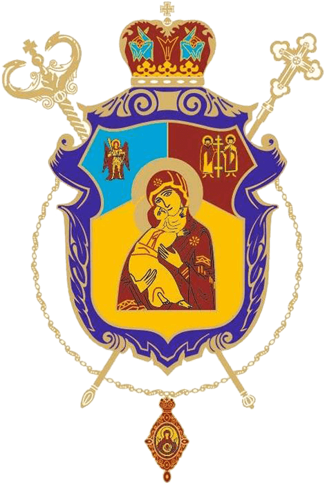 Coat of arms of the Kyiv Archeparchy of the UGCC